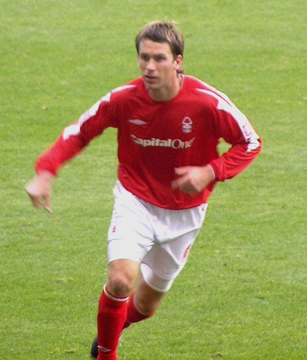 self-made, releasing into public domain